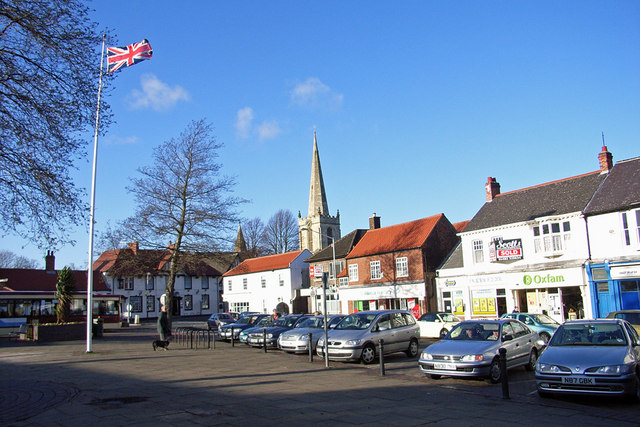 The Square, Hessle, East Riding of Yorkshire, England.View towards All Saints' parish church. The Union flag is flying for the Birthday of the Countess of Wessex.